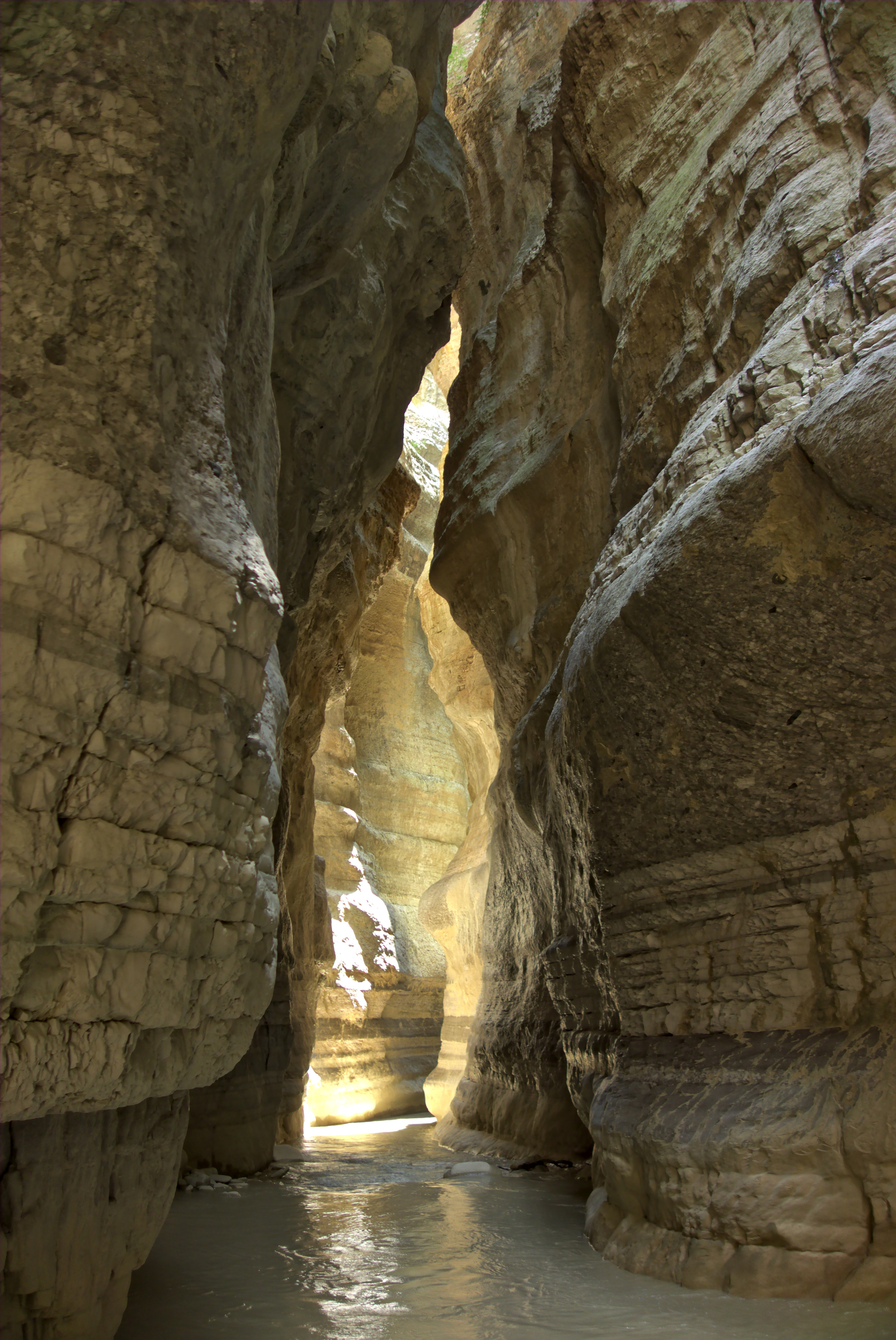 River Lengarica and its Canyon from the inside